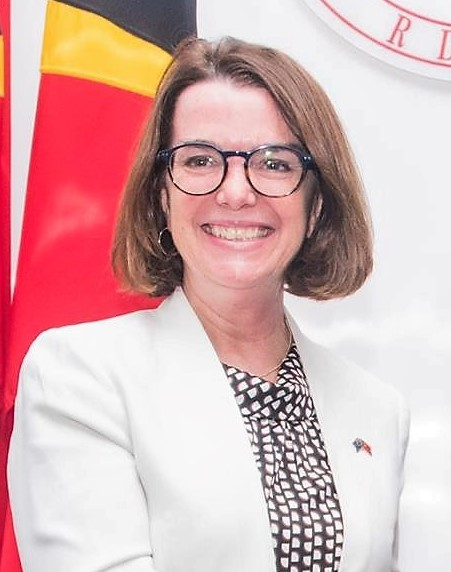 Anne Ruston, Assistant Minister for International Development and the Pacific in East Timor